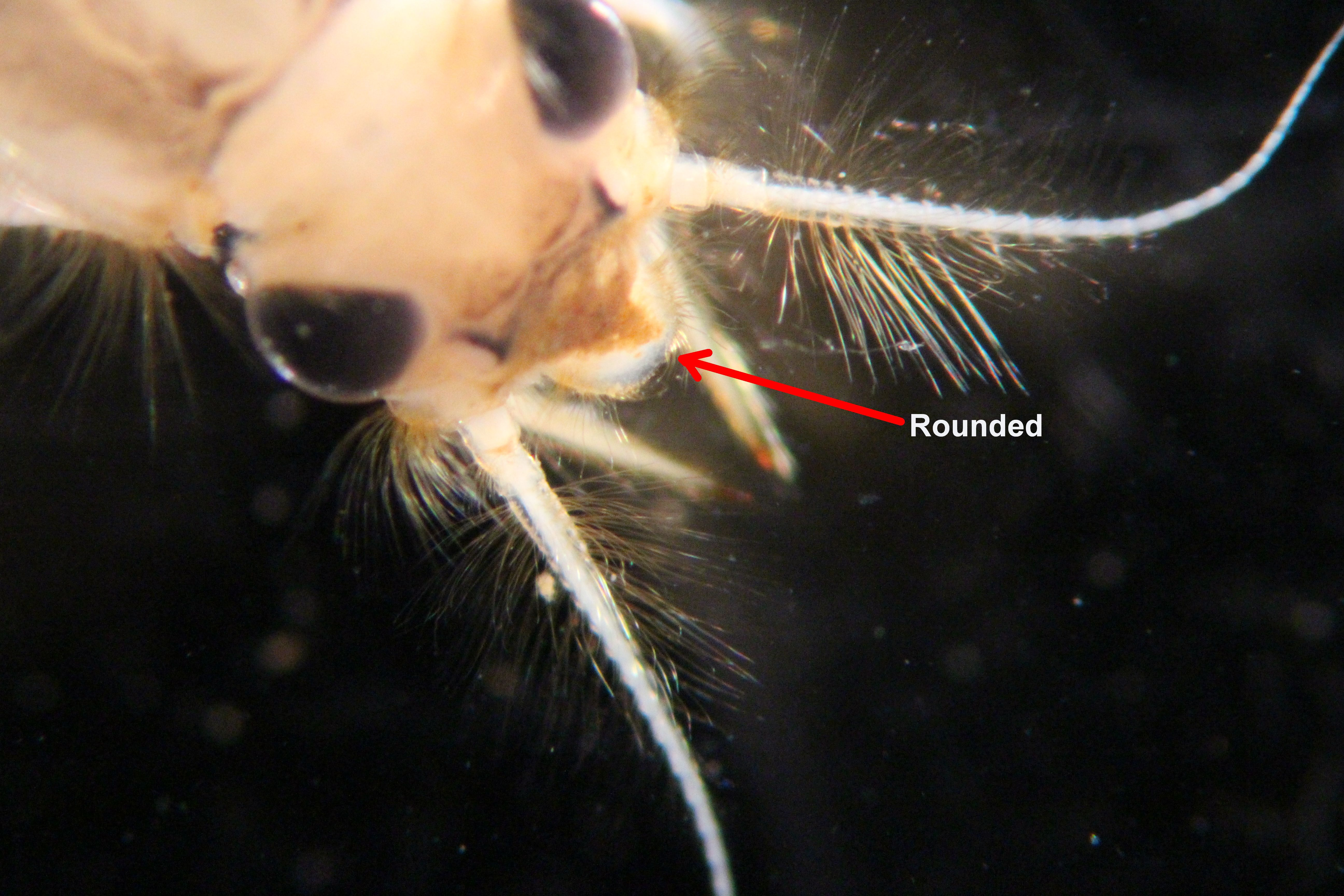 Anatomical details of head for nymph identification